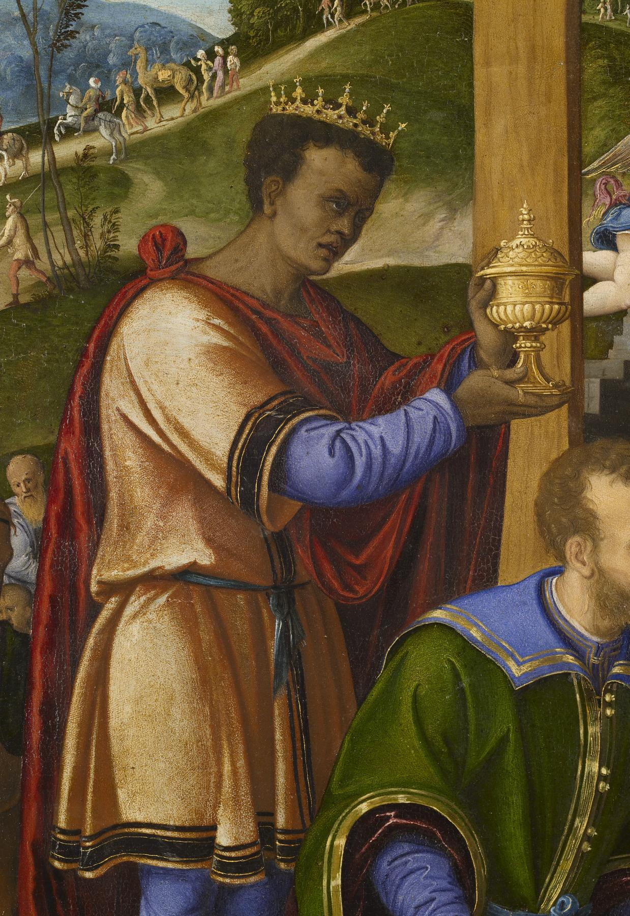 Three wise men, or magi, from the East are described in the Gospels as having seen a new star and journeyed to pay tribute to the child marked as divine by the heavens. The wise men were often depicted as kings, and, by the Renaissance, the youngest was frequently depicted as an African, here holding a gold vessel containing myrrh, a precious resin from Arabia and Africa used for perfume. His portrayal reflects both the ethnic diversity encountered by Renaissance painters in a port like Venice, frequented by African traders, and also the concept of Christ's promise of salvation for all people. The splendor of the kings contrasts with the simplicity of the Holy Family. Chubby little angels sing the words inscribed on the scroll "Glory to God in Heaven and Peace to Men on Earth," accompanied by others playing flutes and a violin.